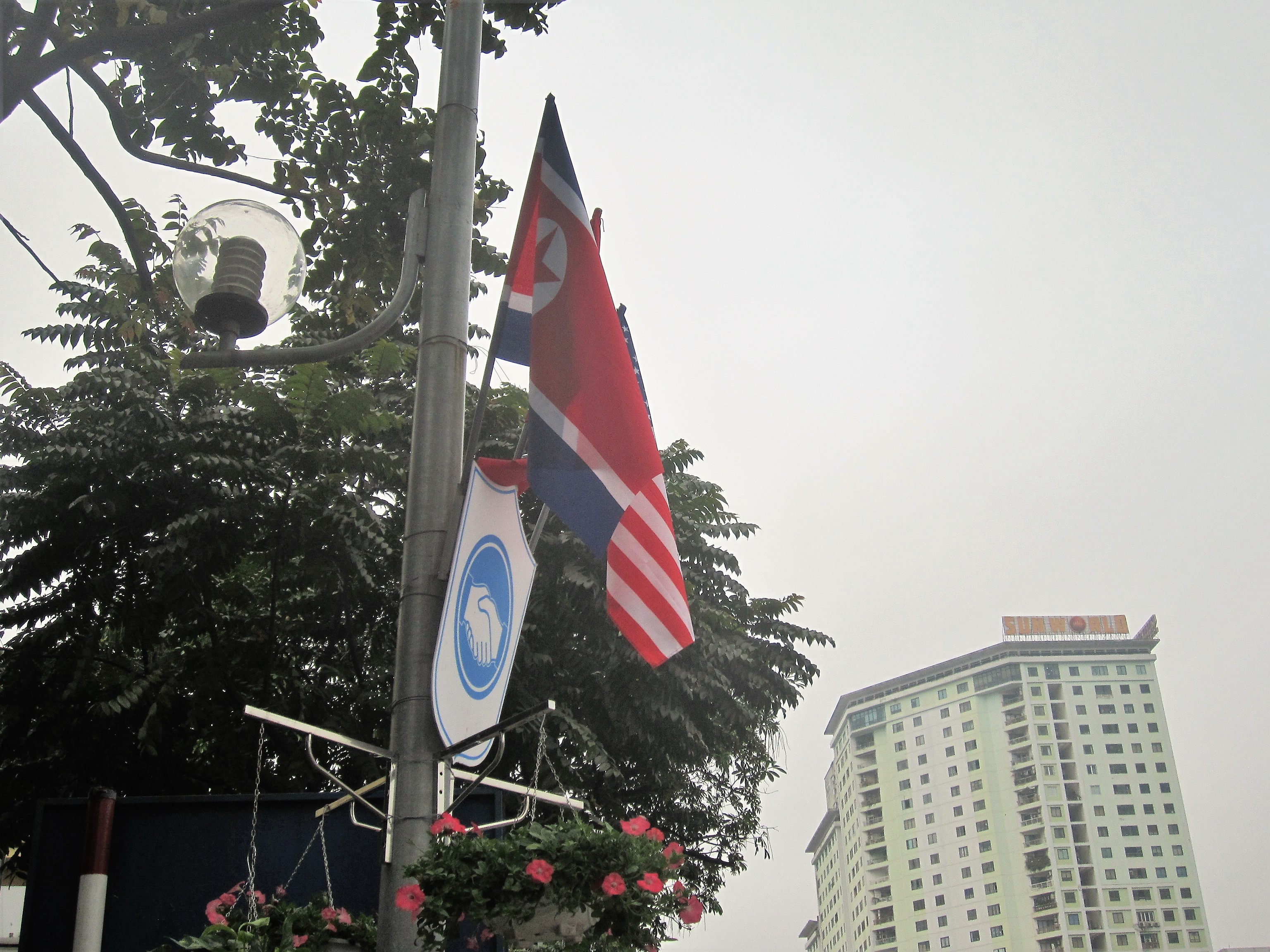 US, North Korea and Vietnam flags on DPRK-USA meeting